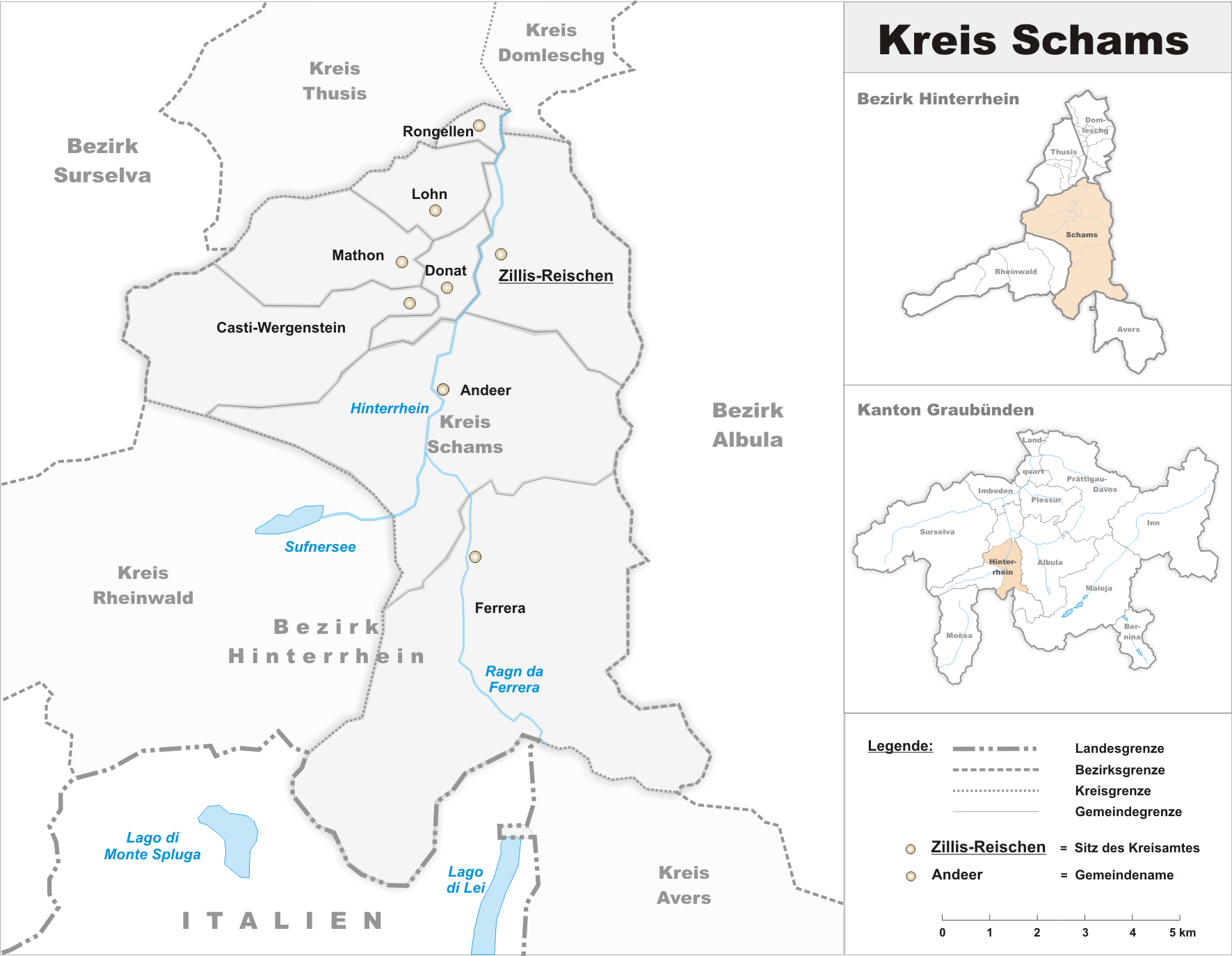 Municipalities in the circle of Schams